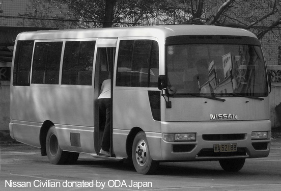 Nissan Civilian by ODA Japan